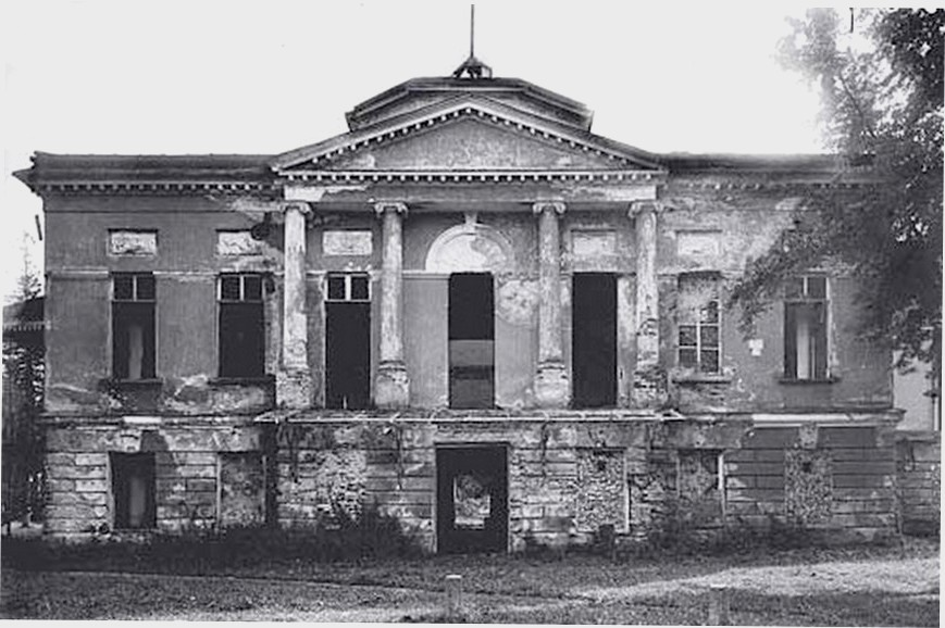 The Buxhoeveden-Kushelev Dacha in Ligovo